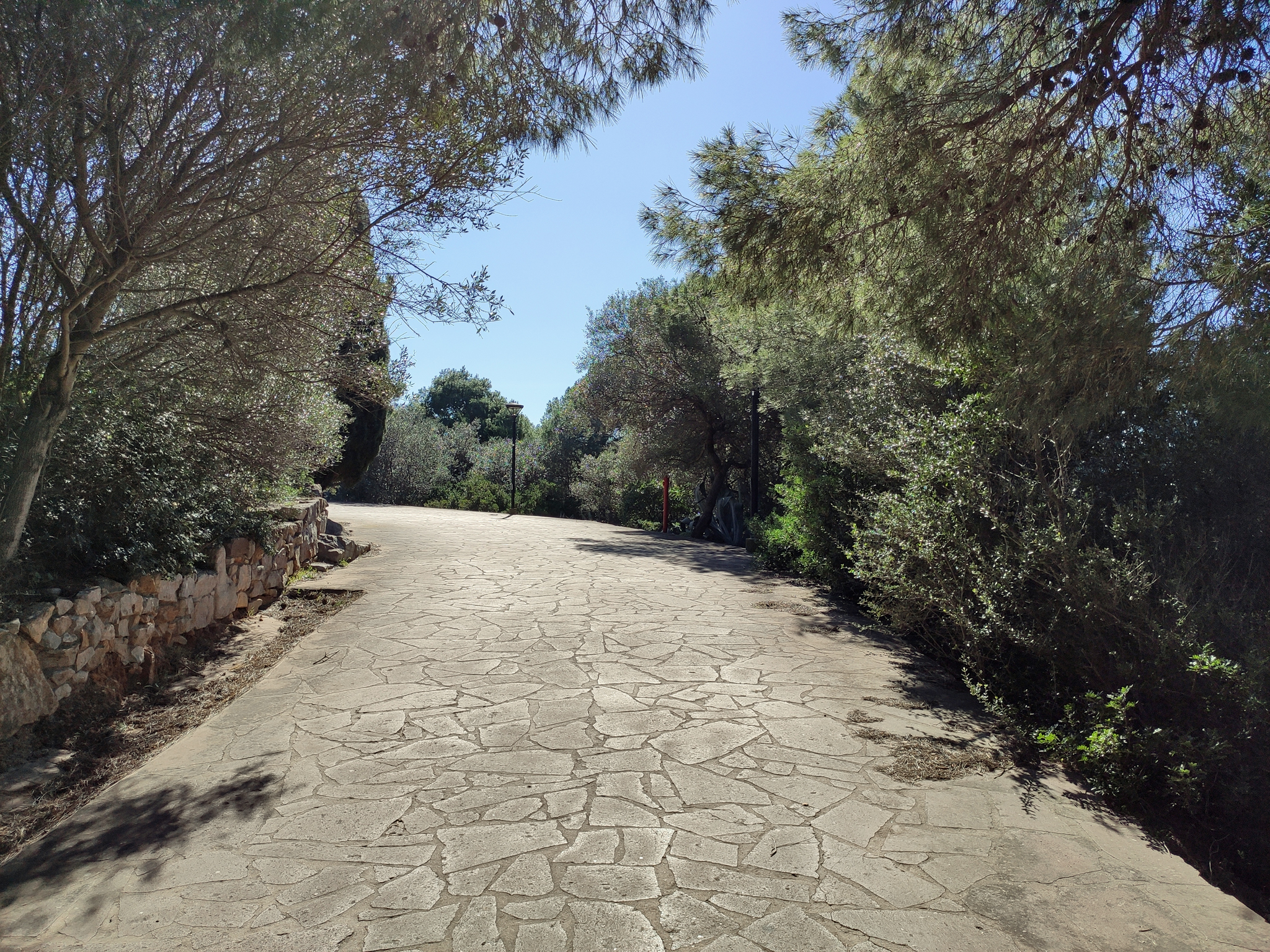 Path inside the Monte Rosmarino park in Carbonia, Sardinia, Italy